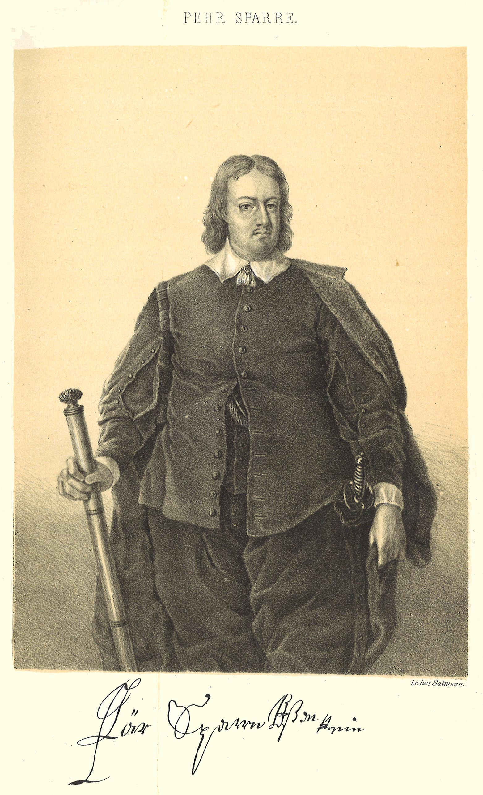 Per Persson Sparre (1633-1669), swedish senator, diplomat and "lantmarskalk" (chairman of the estate of nobility).